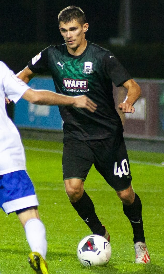 Andrei Ivashin with FC Krasnodar-2 in a game against FC Fakel Voronezh.